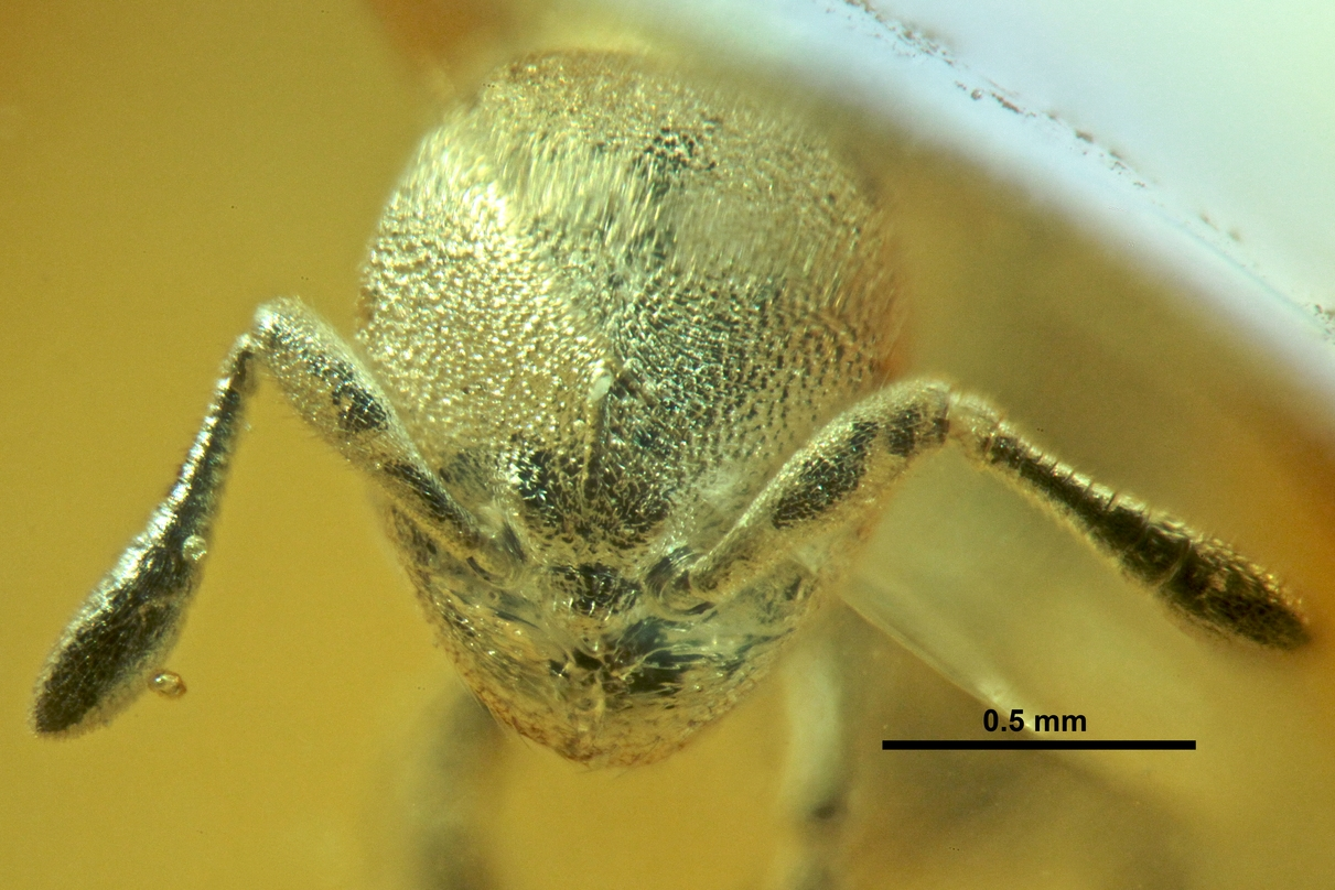 View of the Bradoponera electrina worker holotypes head. Specimen number SMFBE525. Baltic Amber, Middle Eocene, Baltic Region, Europe.